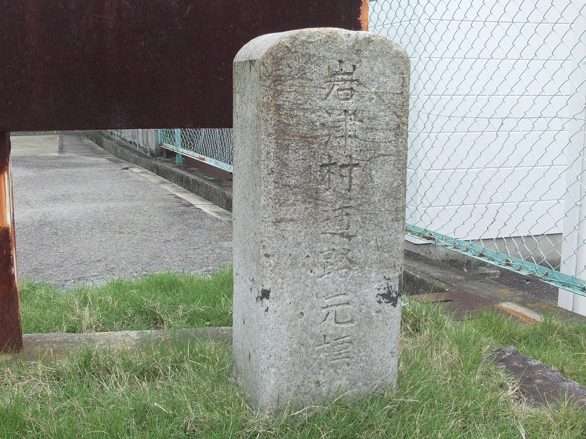 Kilometre zero of Iwadzu village. (Iwazdzu village, Nukata-gun, Aichi.)